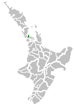 Created using template by Furius